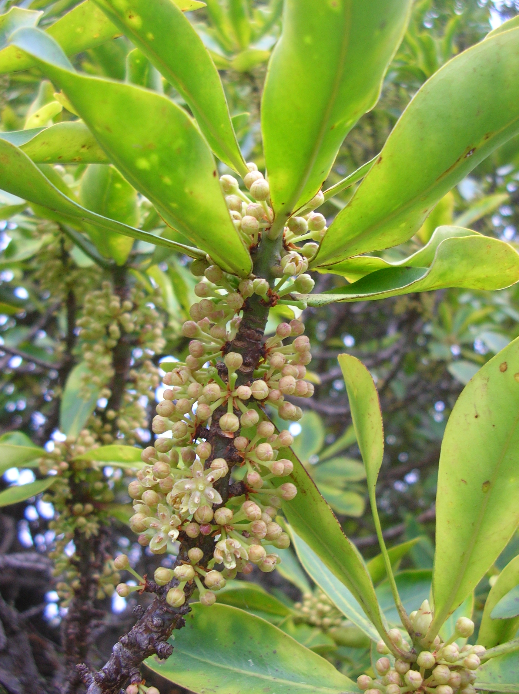 Myrsine lessertiana (flower buds). Location: Maui, Auwahi